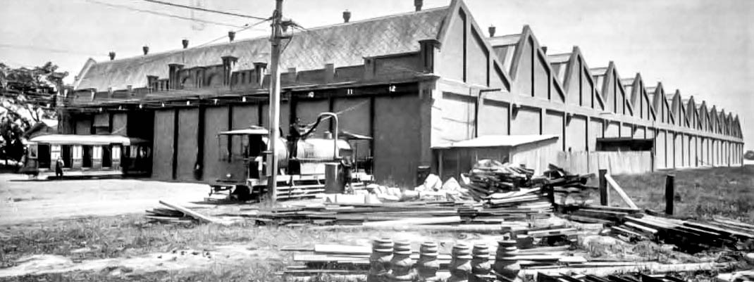 Leichhardt Tramway Depot c.1920